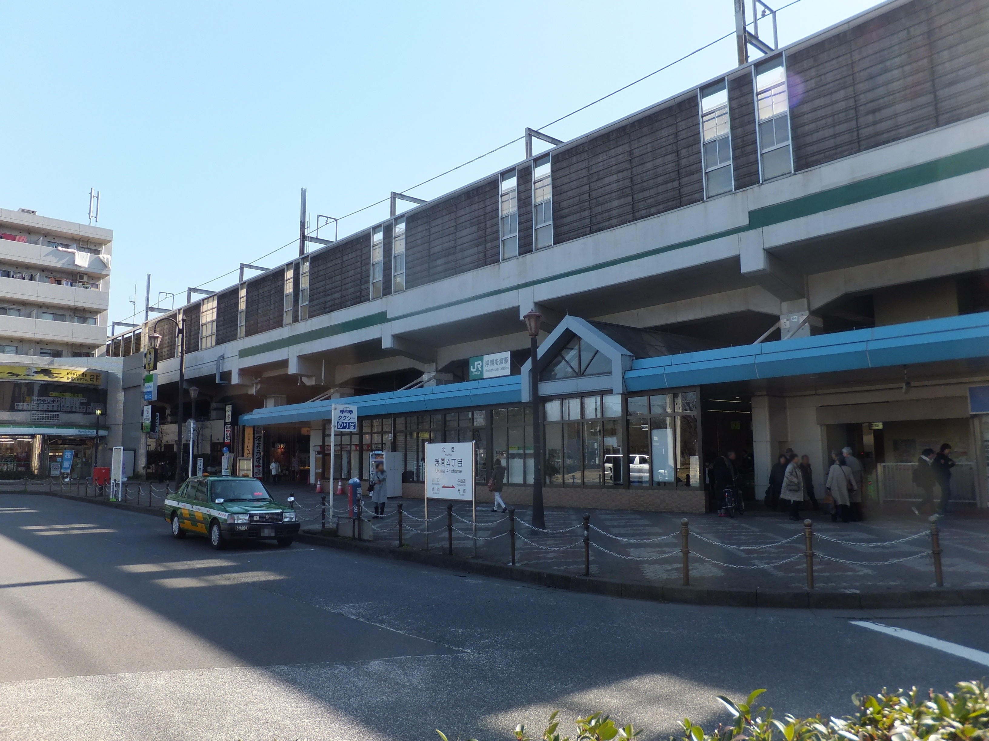 Ukimafunado Station on the Saikyo Line, in Kita, Tokyo, Japan